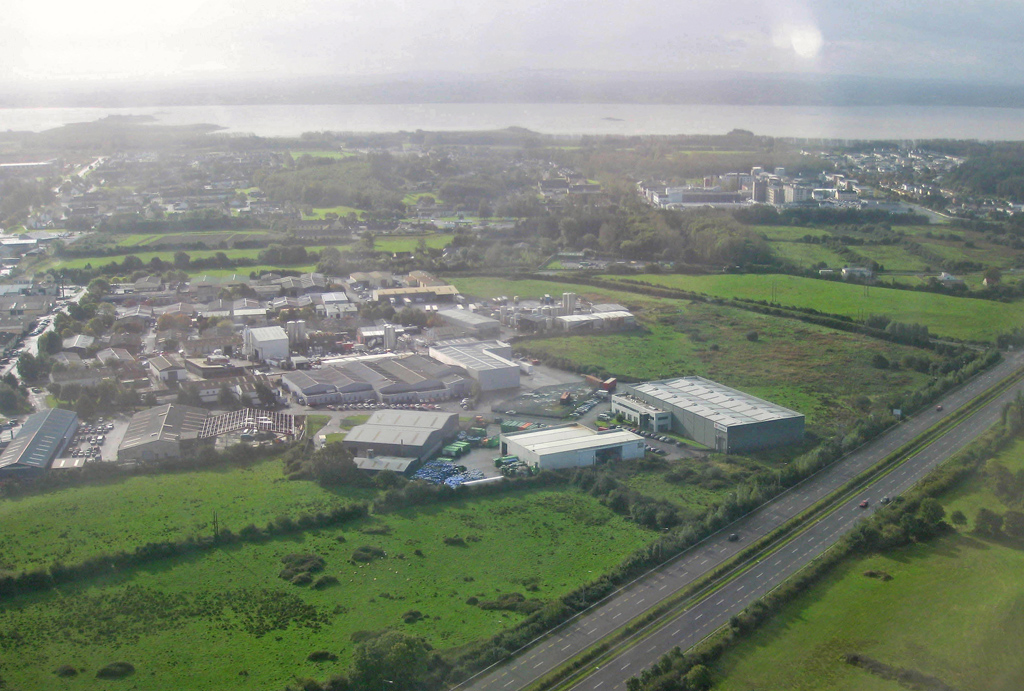 Shannon Town, County Clare, Ireland, looking southwest